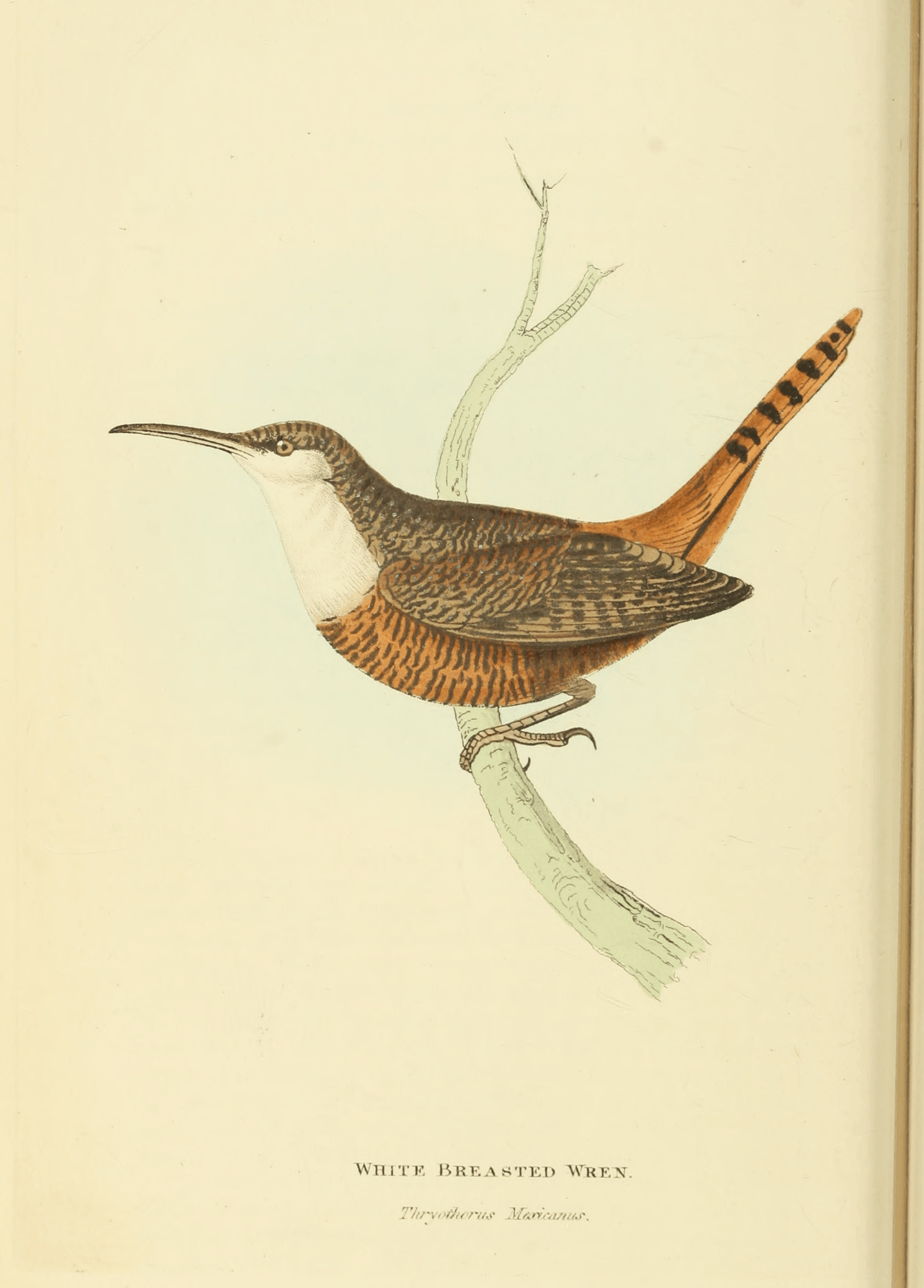 Plate from Zoological illustrations, Volume 1, 2nd series. White Breasted Wren. Thryothorus Mexicanus Swainson. Accepted as Catherpes mexicanus[1]